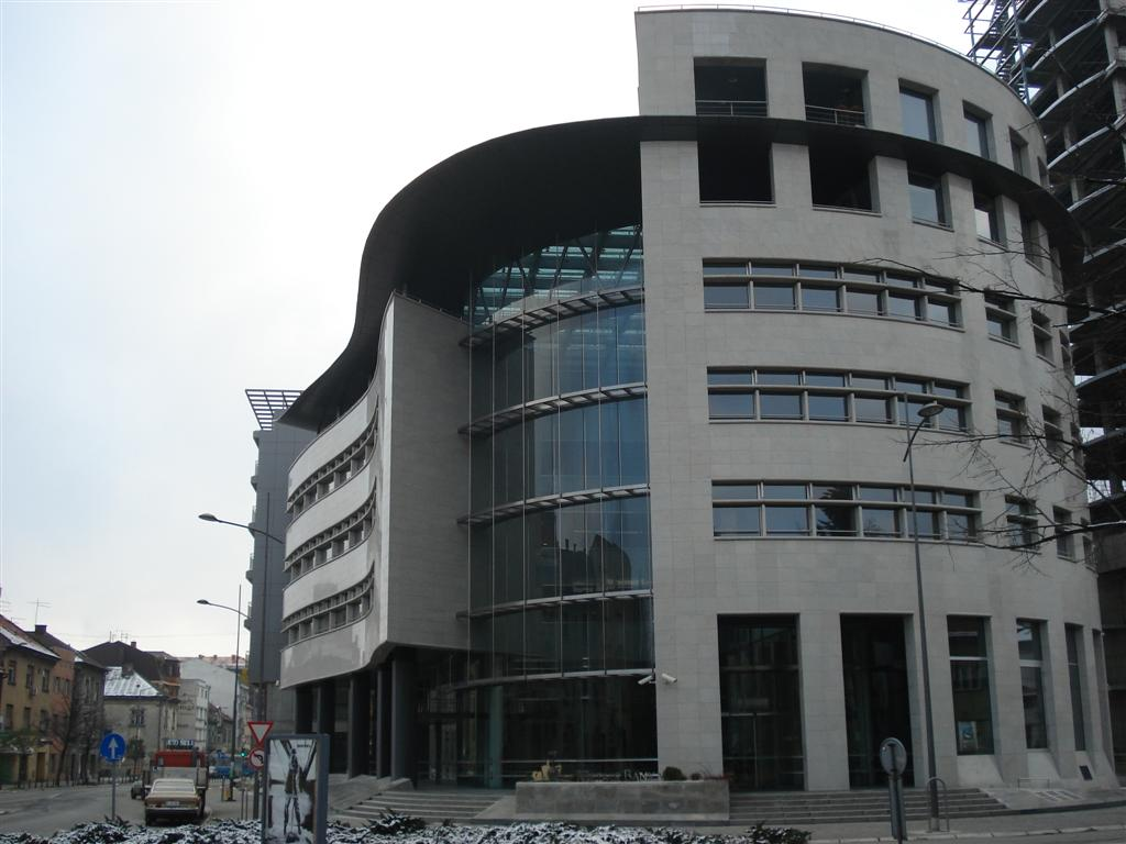 Building of Metals bank / Development bank of Vojvodina in Novi Sad